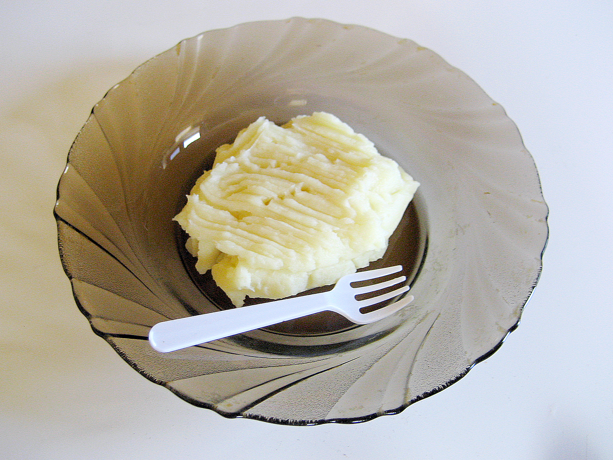 Rollton. Mashed potatoes.